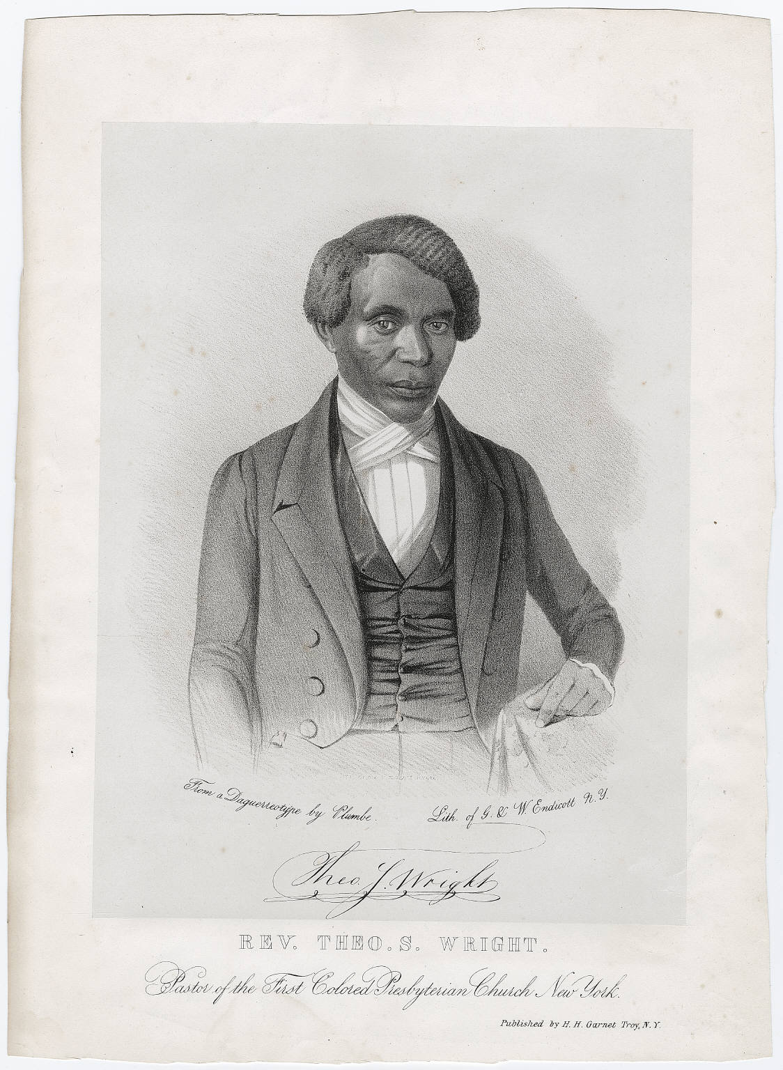 Lithograph portrait of Rev. Theodore Sedgwick Wright, from a daguerreotype by Plumbe. Lithograph by G. S. W. Endicott, New York. Image courtesy of the Randolph Linsly Simpson African-American Collection, Beinecke Rare Book & Manuscript Library, Yale University.[1]